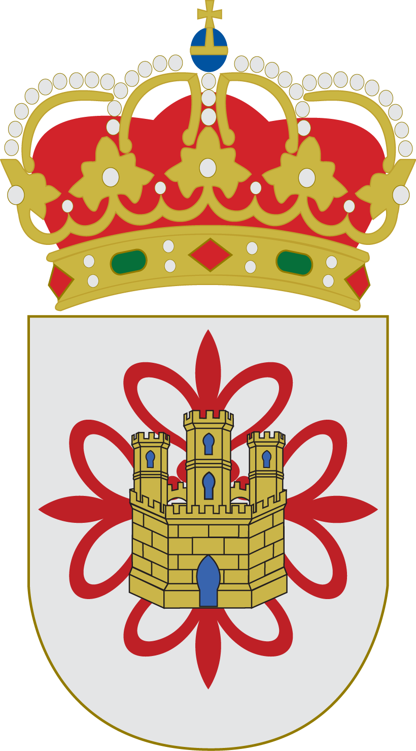 Municipal Coat of Arms of Daimiel, Ciudad Real, Spain